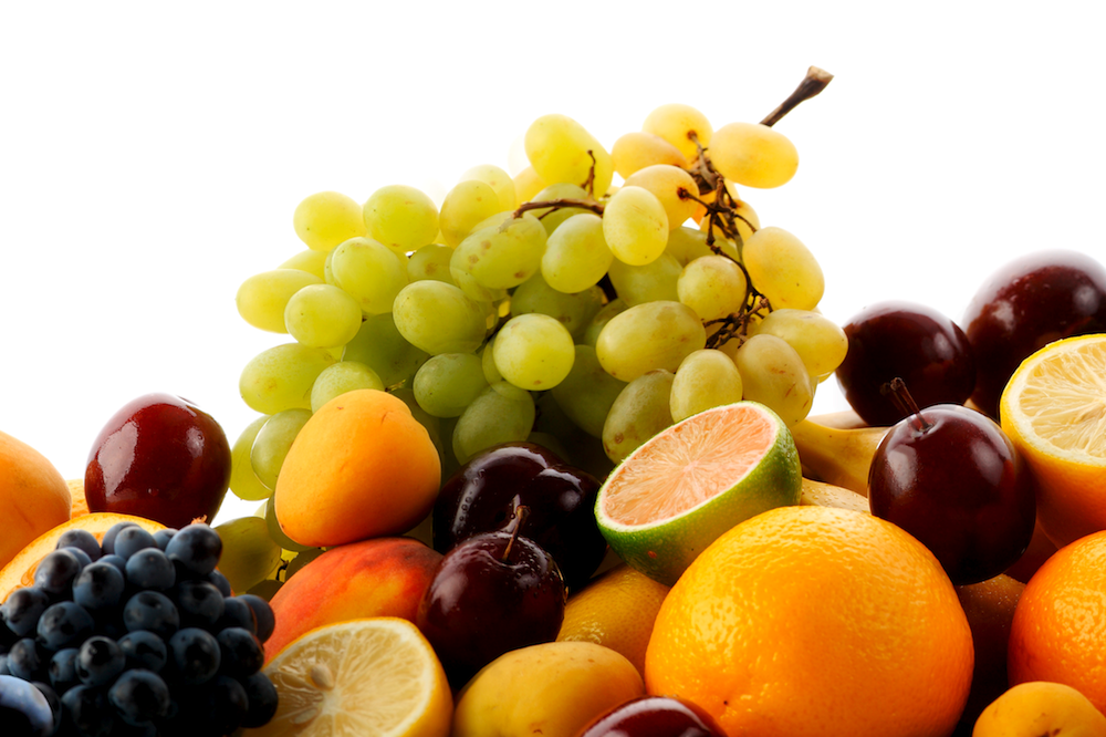 A fruit is a structure of a plant that contains its seeds.